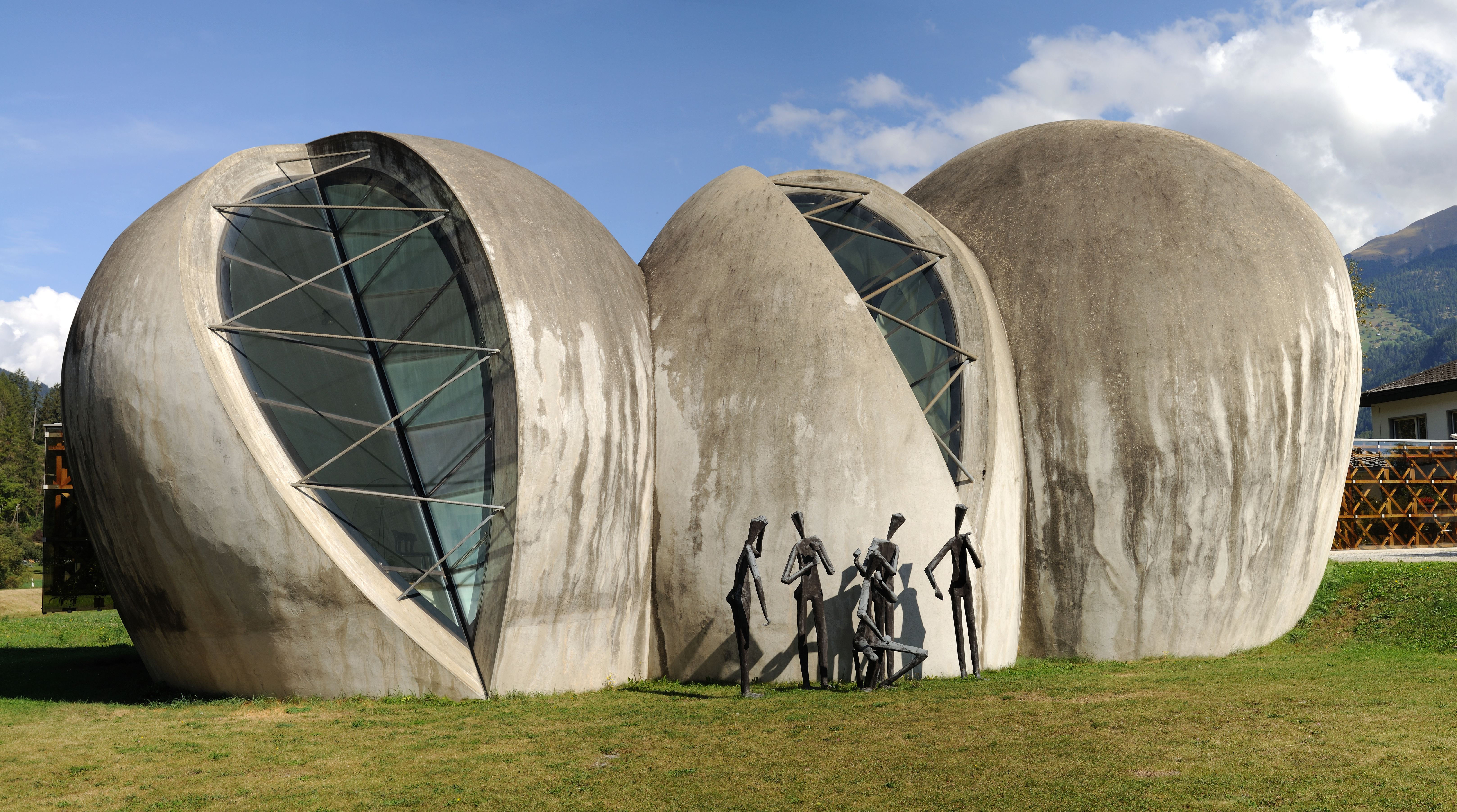 Stone Church in Cazis